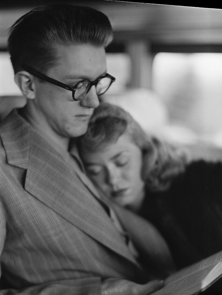 Gottlieb, William P., 1917-, photographer. [Portrait of June Christy and Bob Cooper, 1947 or 1948] 1 negative : b&w ; 3 1/4 x 4 1/4 in. Notes: Gottlieb Collection Assignment No. 063 Reference print available in Music Division, Library of Congress. Purchase William P. Gottlieb Forms part of: William P. Gottlieb Collection (Library of Congress). Subjects: Christy, June, 1925- Cooper, Bob, 1925- Jazz musicians--1940-1950. Women jazz musicians--1940-1950. Jazz singers--1940-1950. Saxophonists--1940-1950. Format: Portrait photographs--1940-1950. Cityscape photographs--1940-1950. Film negatives--1940-1950. Rights Info: Mr. Gottlieb has dedicated these works to the public domain, but rights of privacy and publicity may apply. Repository: (negative) Library of Congress, Prints & Photographs Division, Washington D.C. 20540 USA, (reference print) Library of Congress, Music Division, Washington D.C. 20540 USA, Part Of: William P. Gottlieb Collection (DLC) 99-401005 General information about the Gottlieb Collection is available at Persistent URL: Call Number: LC-GLB23- 0130 This work is from the William P. Gottlieb collection at the Library of Congress. Rights and restrictions.In accordance with the wishes of William Gottlieb, the photographs in this collection entered into the public domain on February 16, 2010.